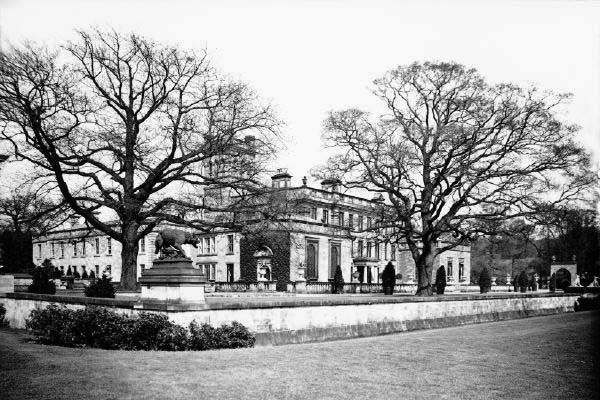 Locko Park William Drury Lowe. Its near Spondon in Derbyshire.